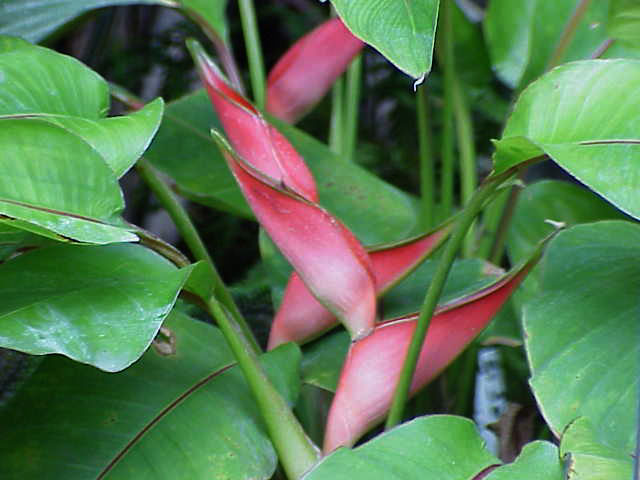 Species: Heliconia stricta Family: Heliconiaceae Image No. 1